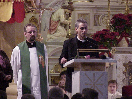 Roman Catholic Reverand Michal Osuch introduces Rep. Rahm Emanuel to parishioners of St. Hyacinth Church in Chicago. Rahm attended a Polish-language mass where he honored St. Hyacinth on becoming a Basilica.